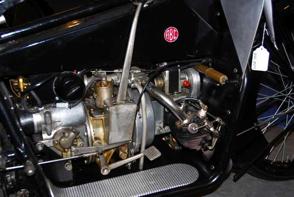 Flat-twin engine of a 1921 ABC motorcycle Photo © by Jeff Dean